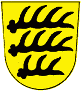 Coat of arms of the House of Württemberg